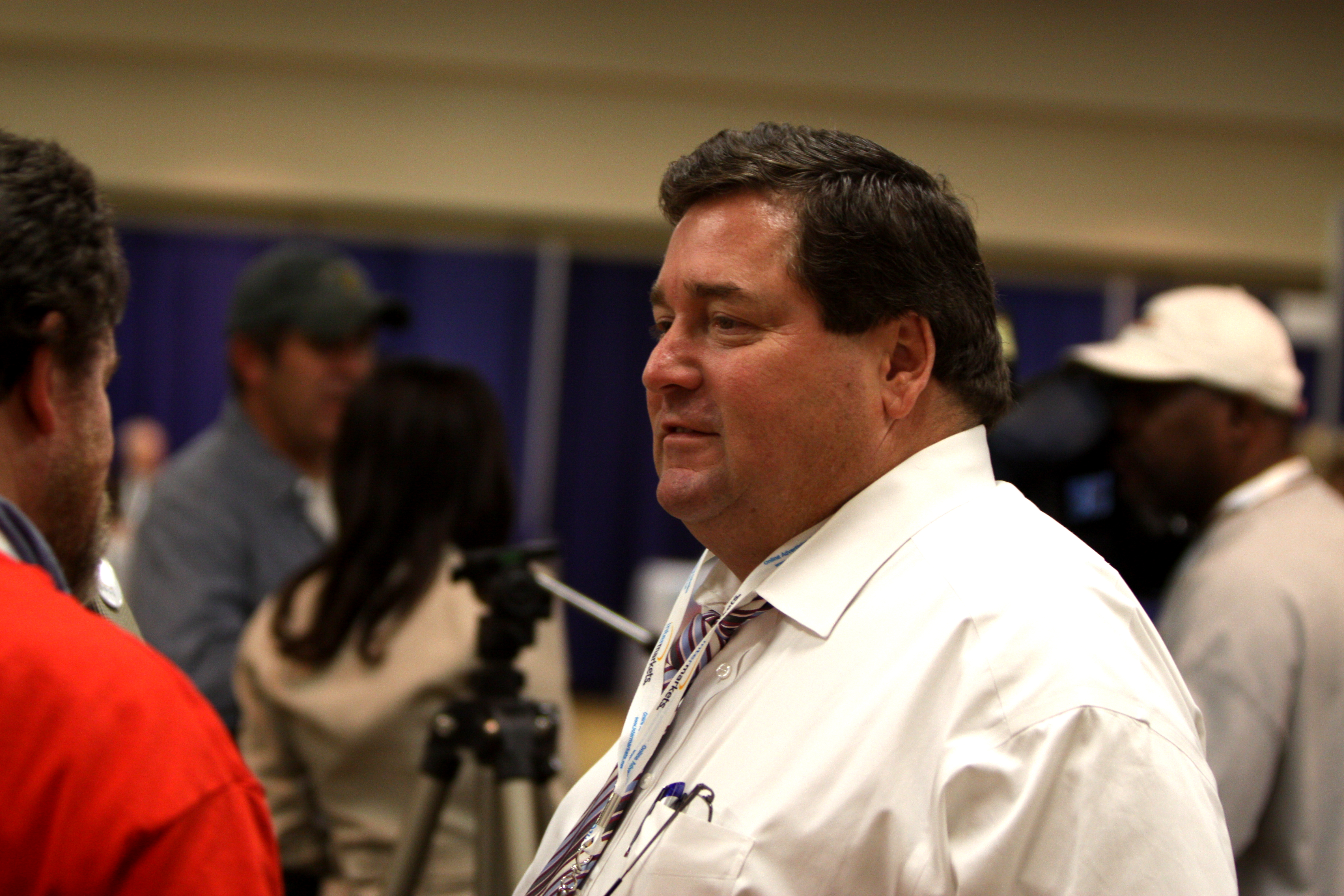 Billy Nungesser at the Republican Leadership Conference in New Orleans, Louisiana.